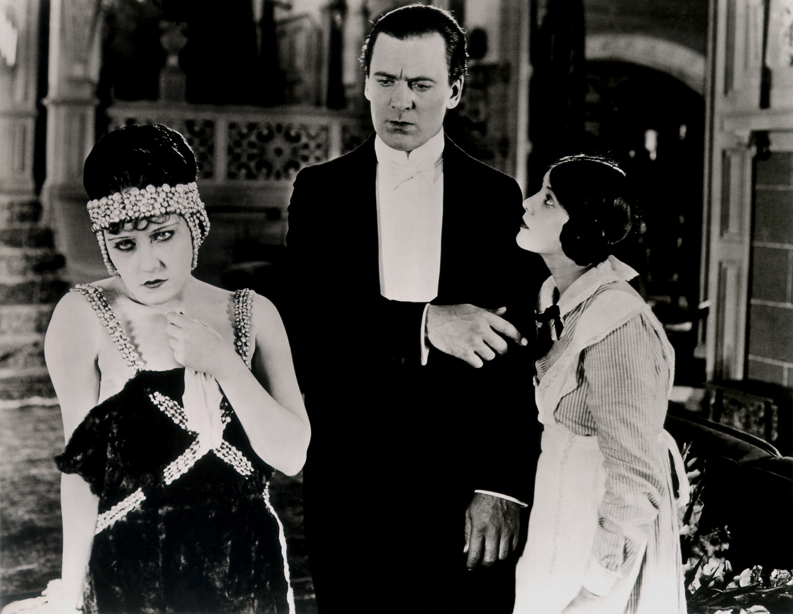 L. to R. : Gloria Swanson, Thomas Meighan & Lila Lee in Male and Female - cropped screenshot